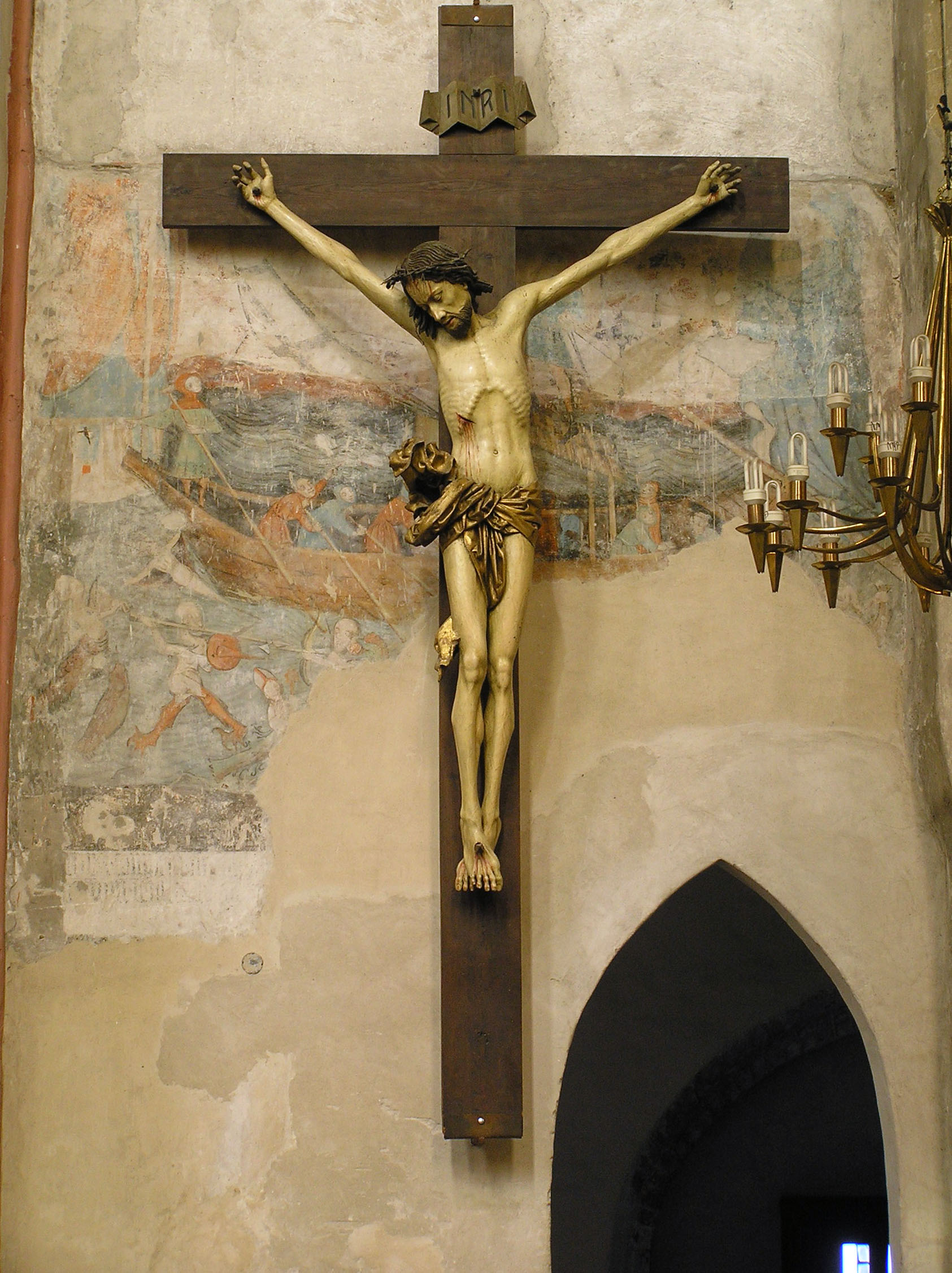 Toruń, St. Mary's church, crucifix (turn of the 15th and 16th cent.).